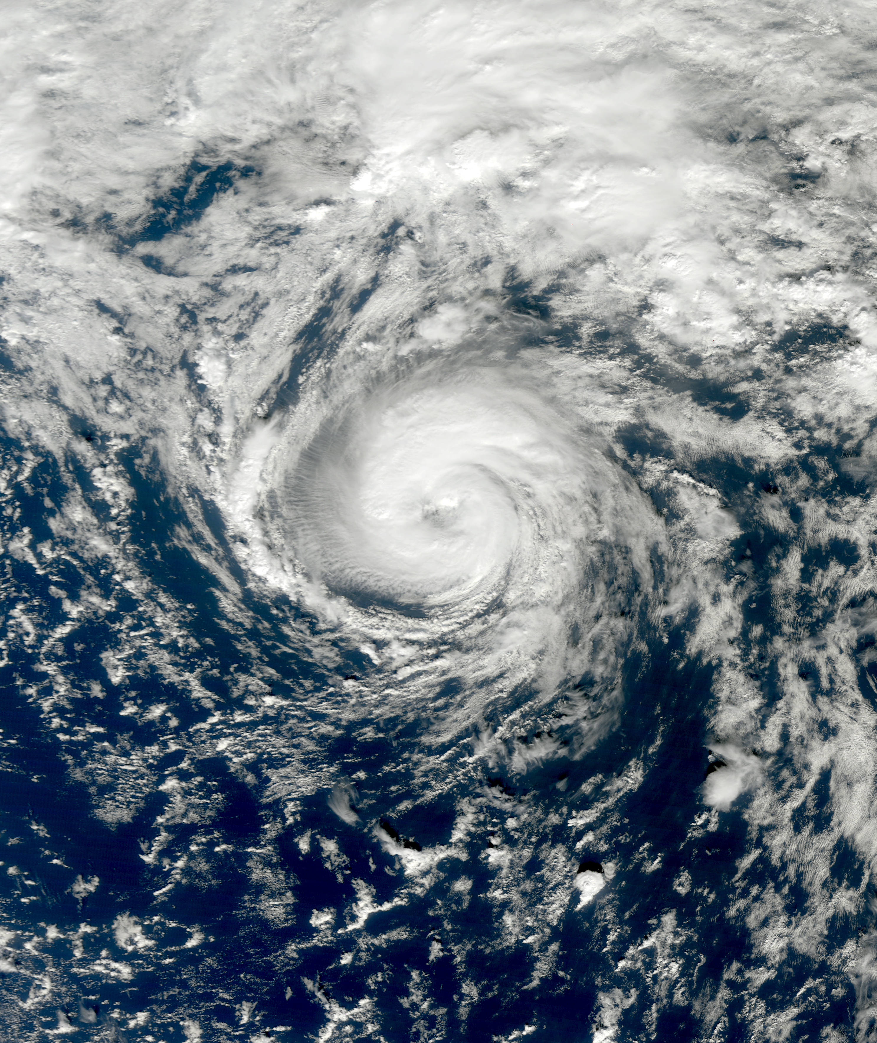 Tropical Storm Grace at peak intensity